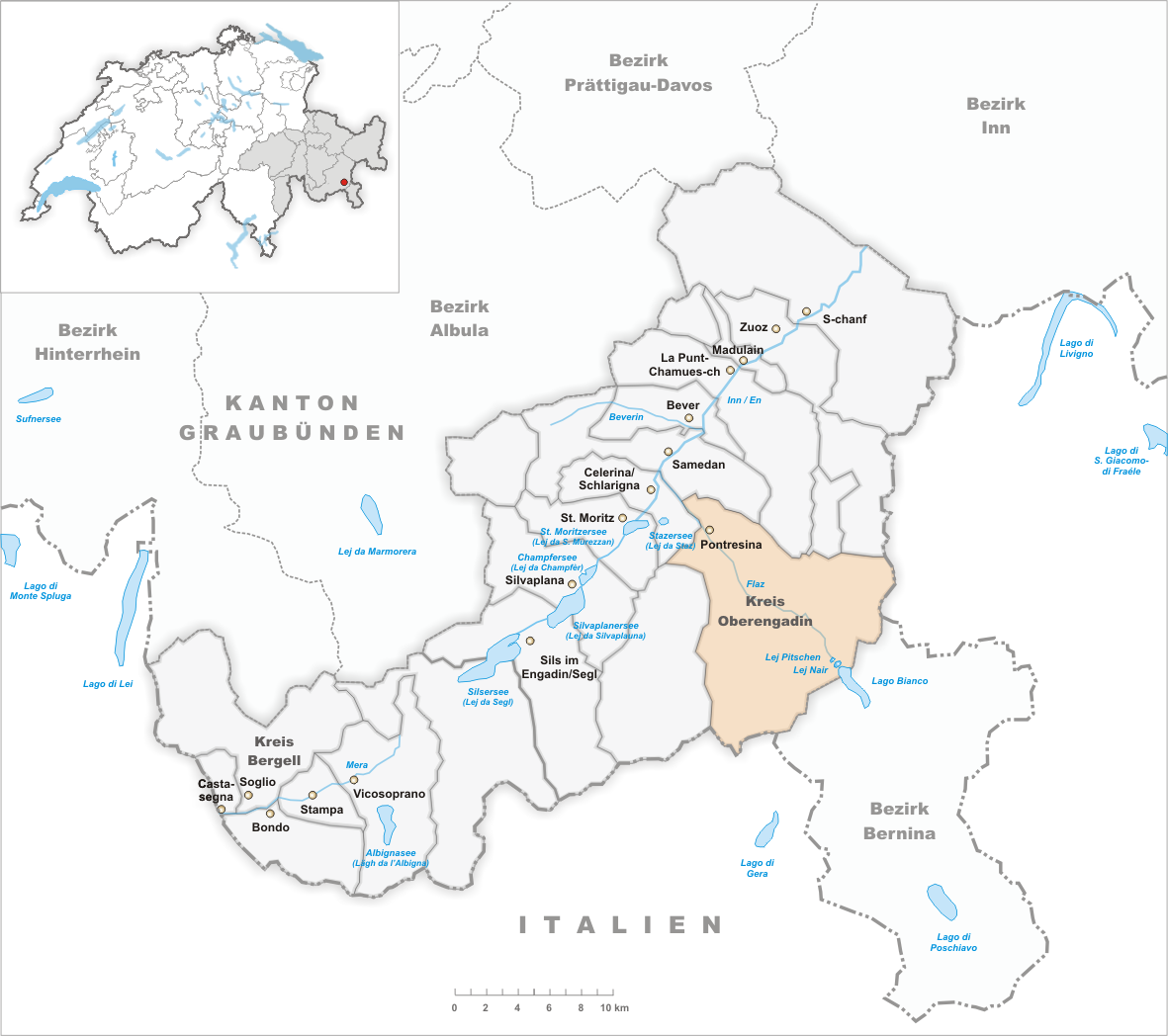 Municipality Pontresina